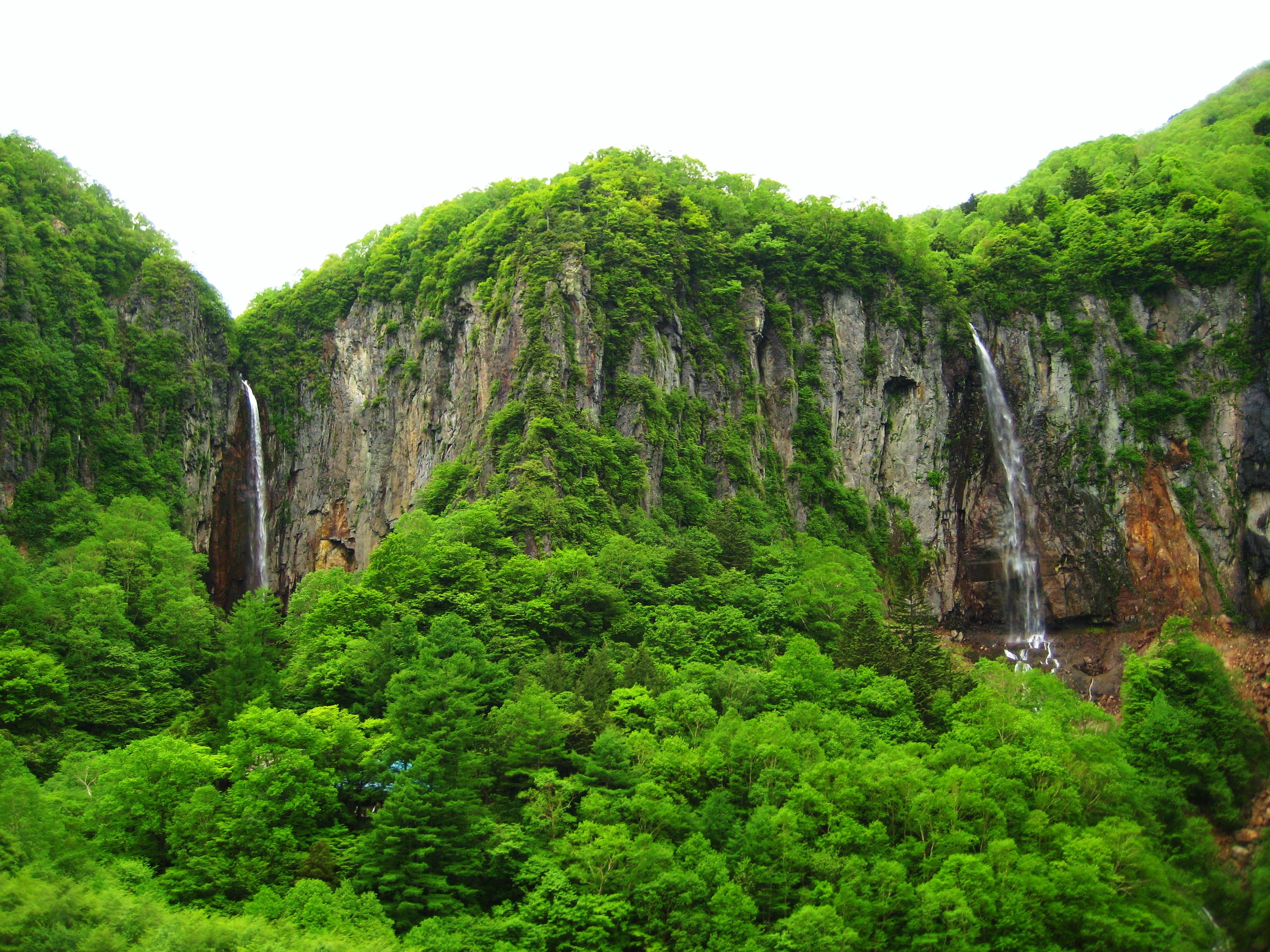 Yonakodaibakufu. The waterfalls are composed of Gongendaki (left) and Fudōdaki (right).